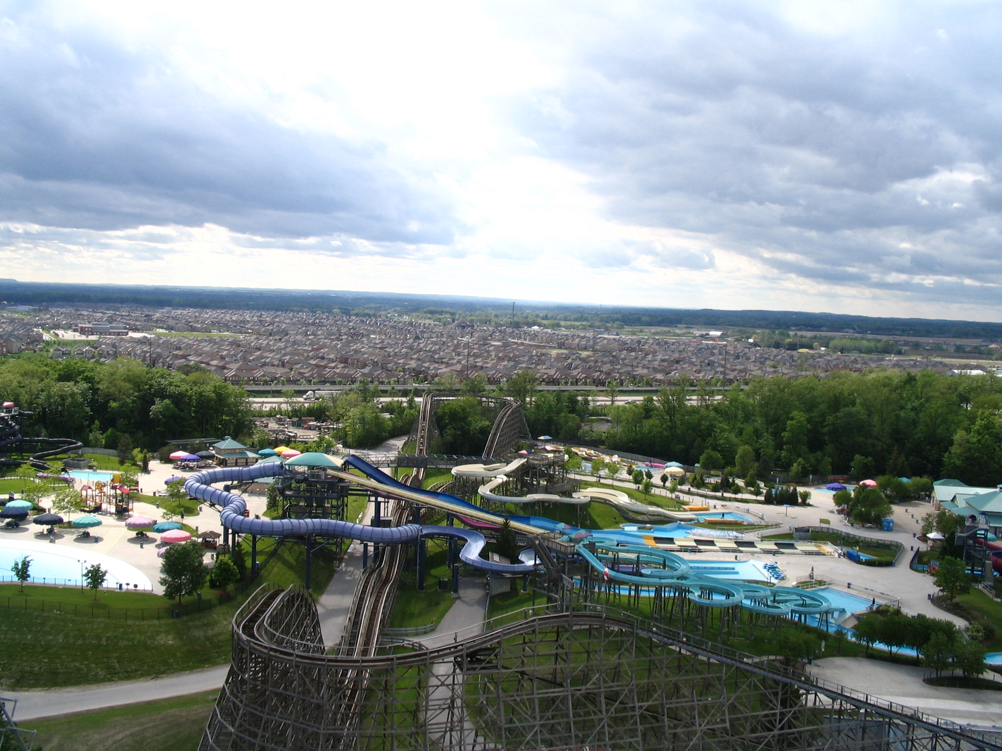 Near the top of Behemoth. From the other side of the train, you could see the Toronto skyline, but from this side all you see is the sprawling sameness of Vaughan. The roller coaster in the foreground is the Mighty Canadian Minebuster, in addition to Splash Works.